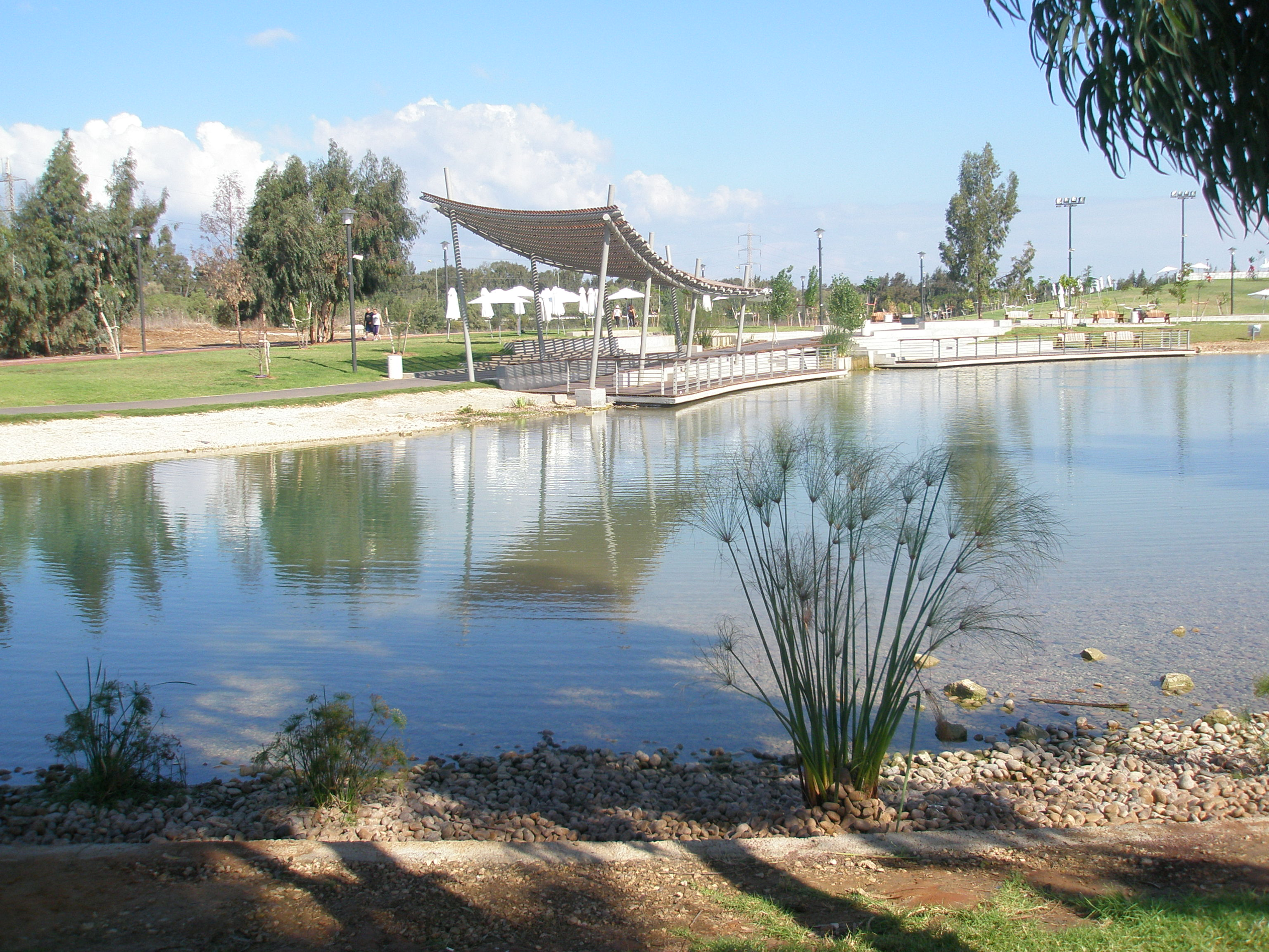 Herzliya Park